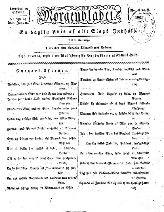 The front page of the norwegian newspaper Morgenbladet from the 2nd of January 1820.